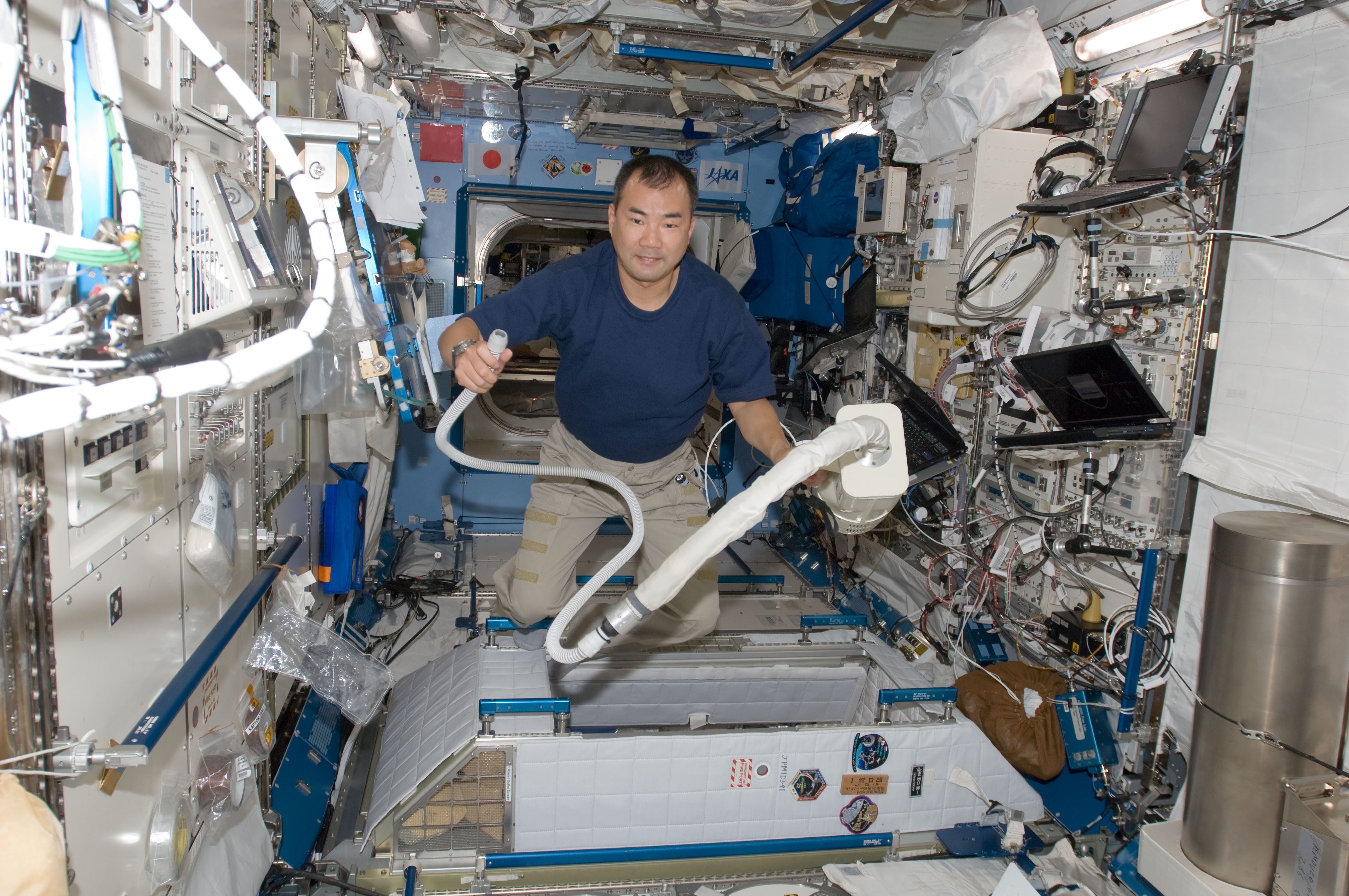 Japan Aerospace Exploration Agency astronaut Soichi Noguchi, Expedition 22 flight engineer, uses a vacuum cleaner during housekeeping operations in the Kibo laboratory of the International Space Station.